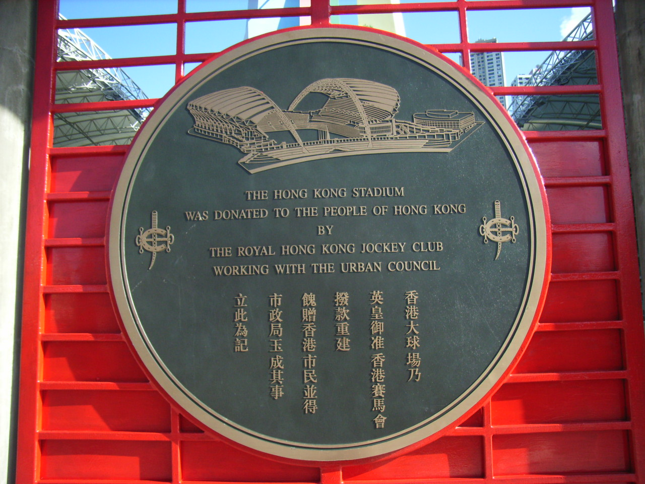 東院道 (Eastern Hospital Road)，是香港島銅鑼灣南部掃桿埔的一條街道